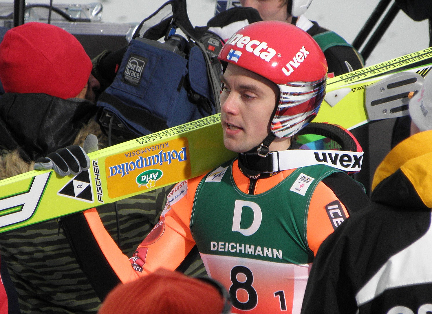 Finnish skijumper Anssi Koivuranta at the FIS Nordic World Ski Championships 2011 in Oslo.